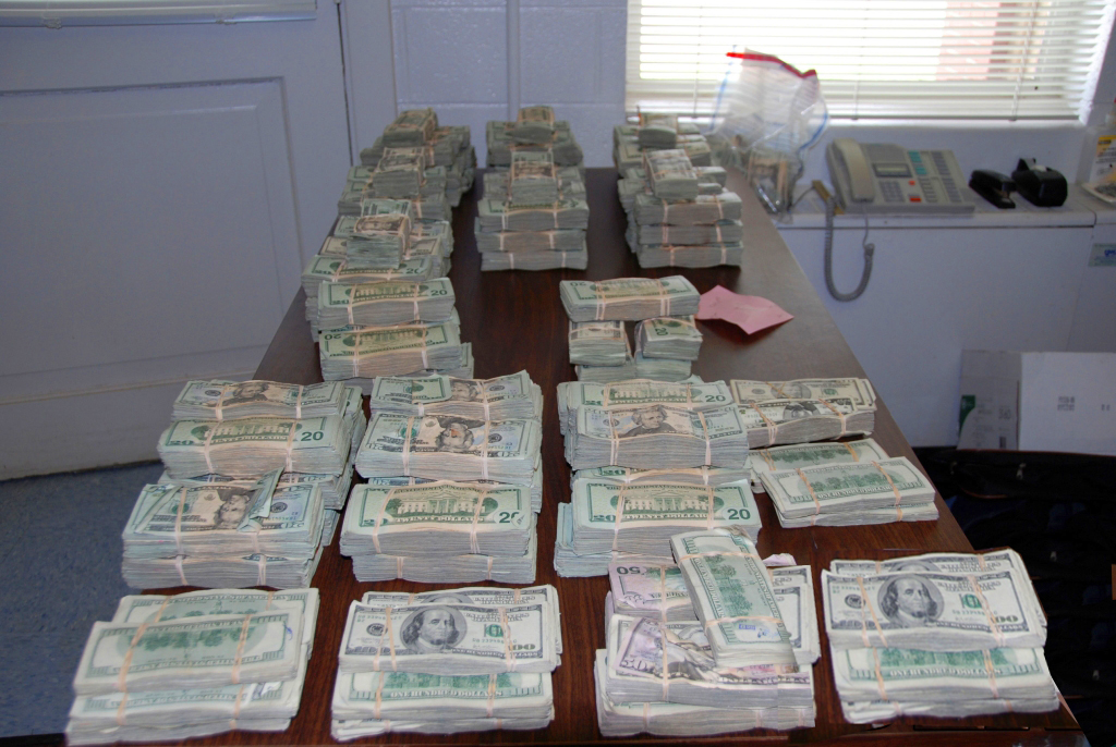 Money seized during "Project Coronado" by the DEA. Going in "La Familia Michoacana" article.